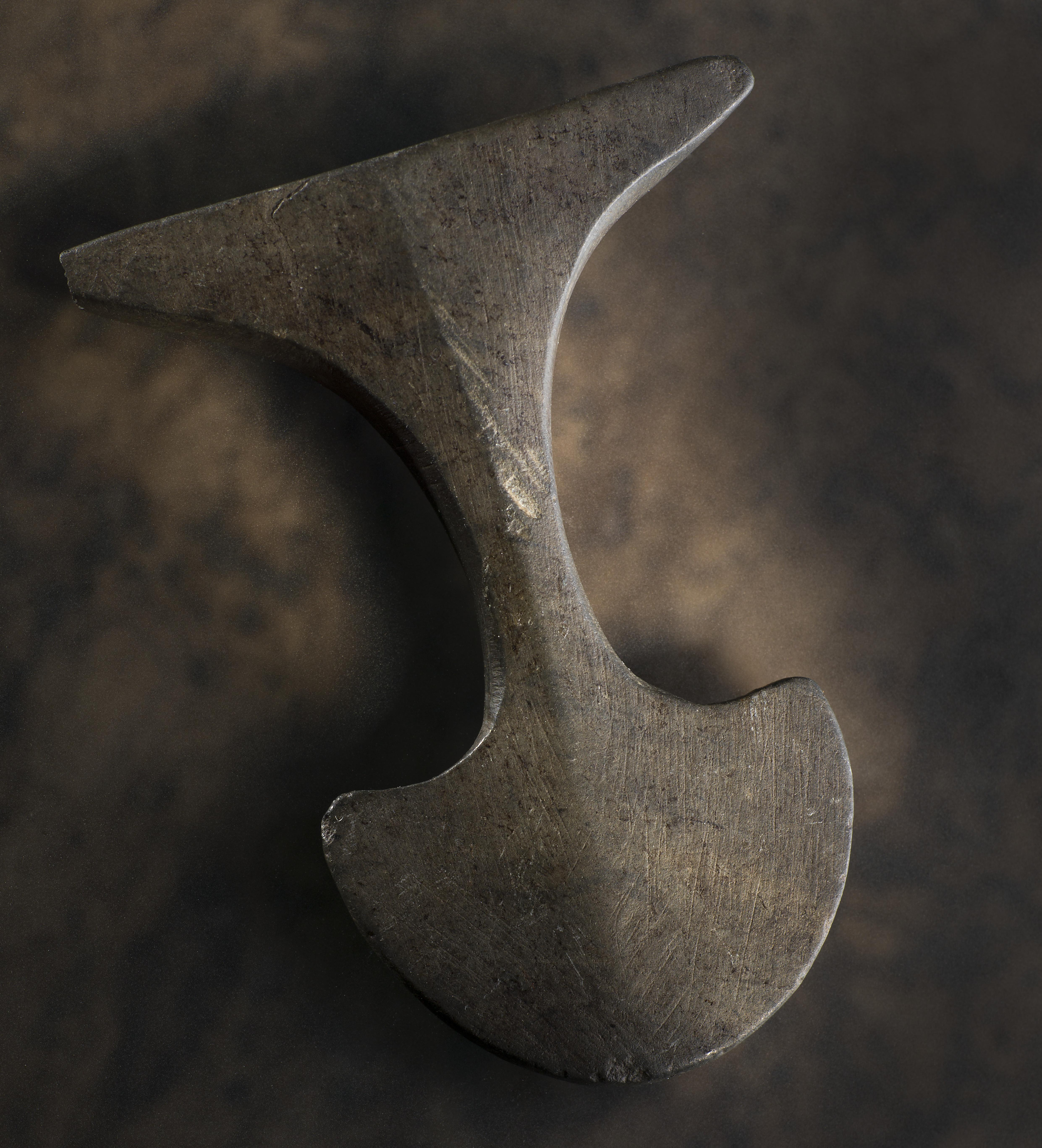 Skifersmykke funnet i en myr under torvstikking tidlig på 1950-tallet og kom til NTNU Vitenskapsmuseet i 1955. Smykket har ingen spor etter bruk og innsatsen i utformingen tyder på at det kan ha stor verdi. Funnstedet og mangelen på spor etter bruk, tyder også på at dette hadde en rituell verdi, og at det er mulig den er lagt i myra som et offer. Smykket måler 5,5 centimeter på langs. This shale pendant is found in a mire during digging of peat in the early 1950s and came to the NTNU University Museum in 1955. The pendant bears no trace of use and the effort put into shaping it gives the impression that it is valuable. The site of discovery as well as the lack of signs of use may imply that its original purpose was of ritual value, and it is possible that it was placed in the mire as a sacrifice. The jewellery is 5,5 centimeters long Vennligst krediter/Please credit: Foto/photo: Åge Hojem, NTNU Vitenskapsmuseet I samarbeid med Halldis Nergaard, Adresseavisa